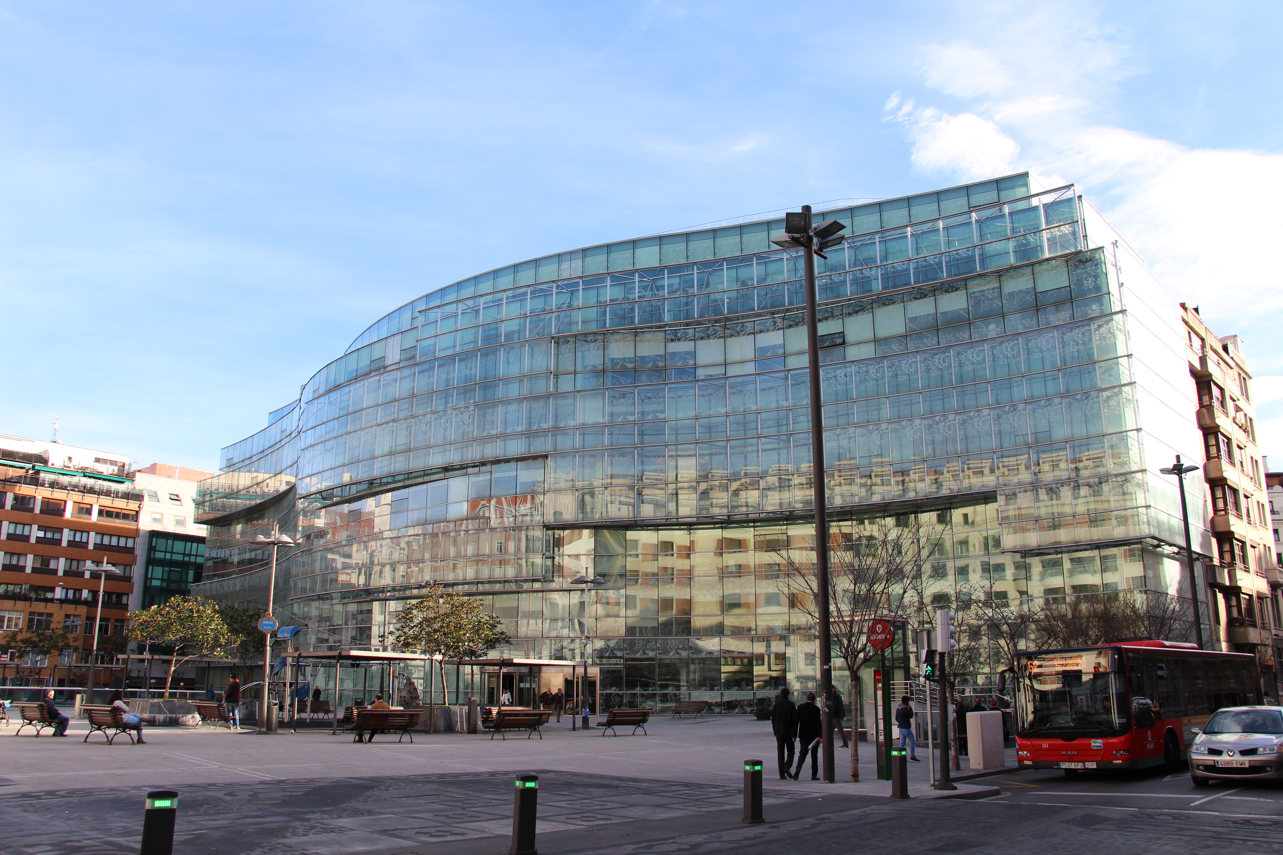 (Indautxu) Bizkaia Plaza Basque Country government headoffice. Arch. Federico Soriano 2003-06